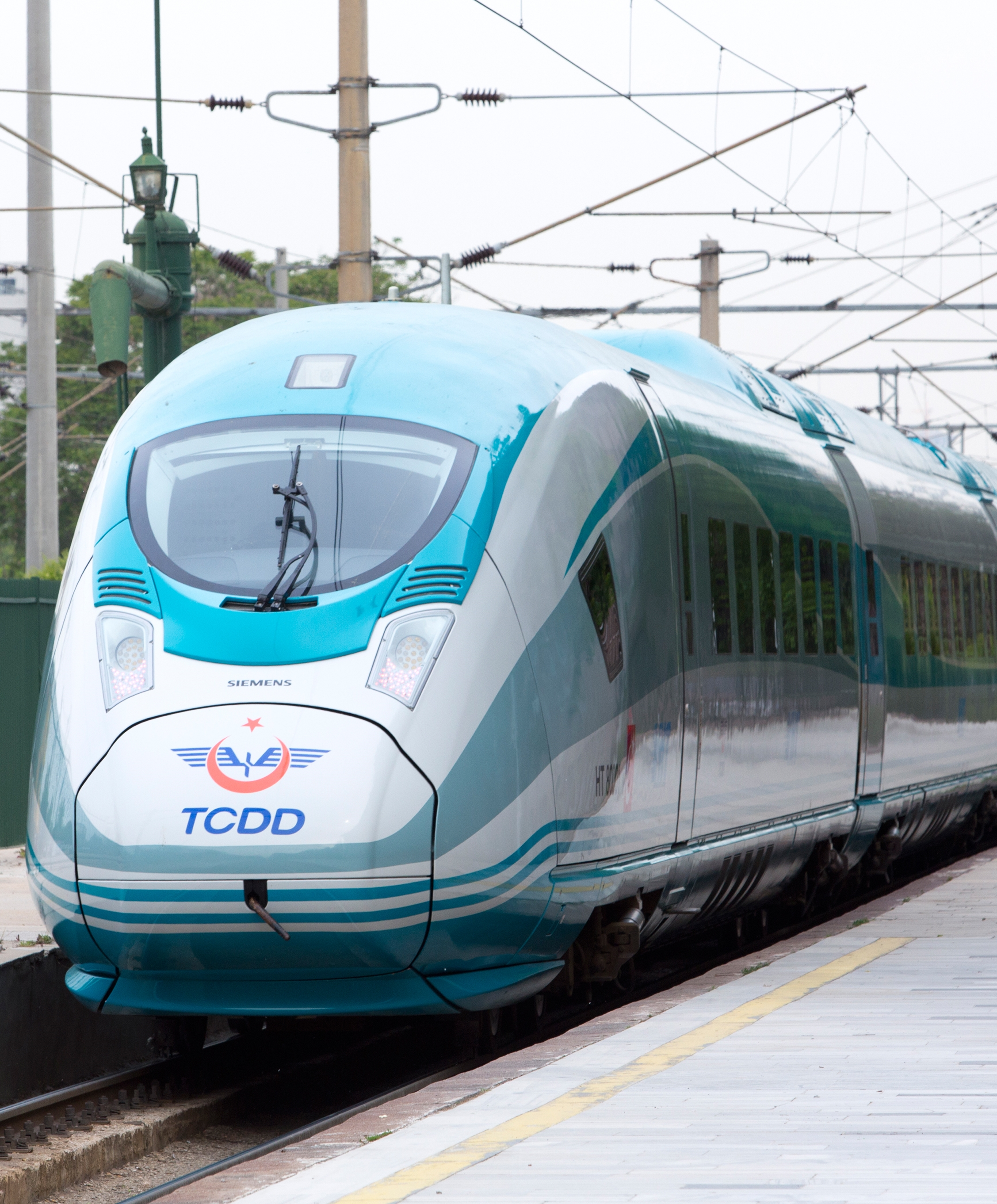 TCDD HT80000 (Siemens Velaro) high-speed train of the Turkish State Railways.